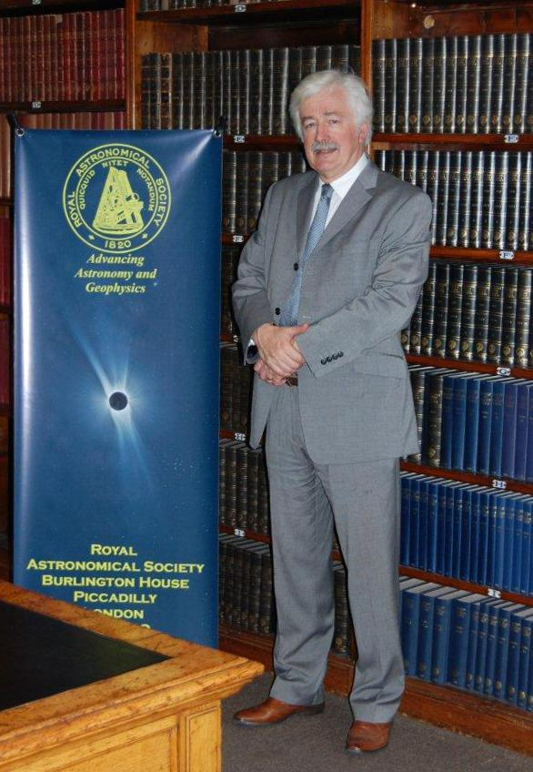 Prof. David Southwood, President of the Royal Astronomical Society. Taken in the Council Room of the RAS, Burlington House, Piccadilly, London, on 27 June 2012.